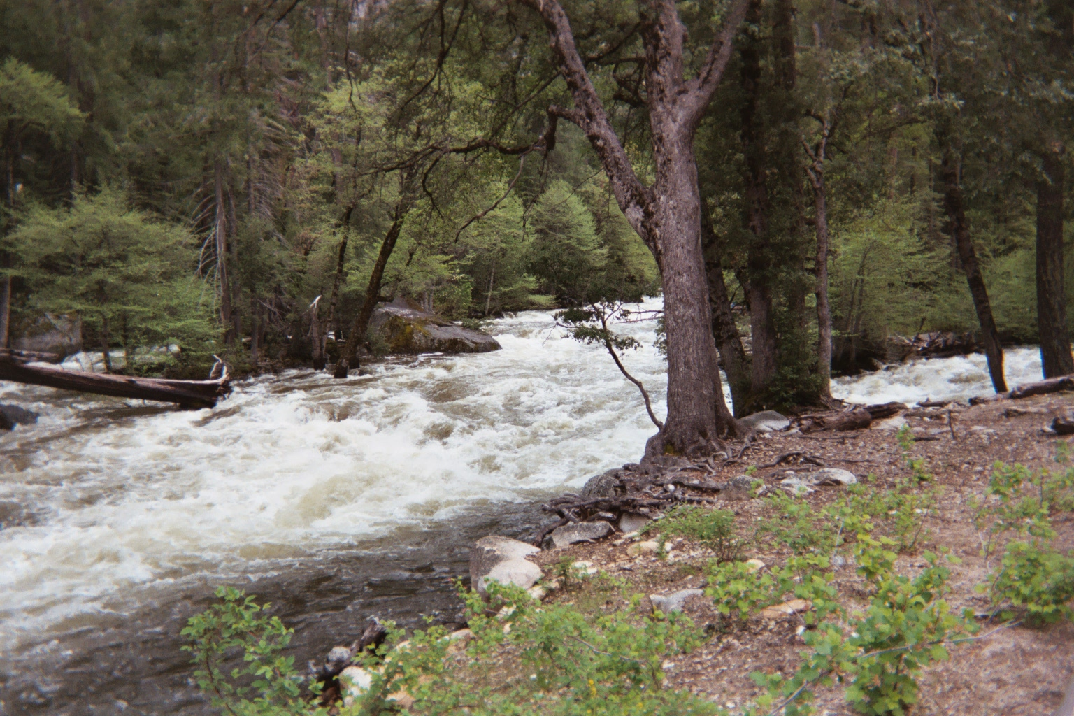 Site of the old Happy Isles Bridge (foreground). Happy Isles is where the Merced River enters the Yosemite Valley after falling and tumbling over the Grand Staircase. The Happy Isles themselves are a series of granite islands in the middle of the river, accessable by footbridge. Yosemite National Park, California